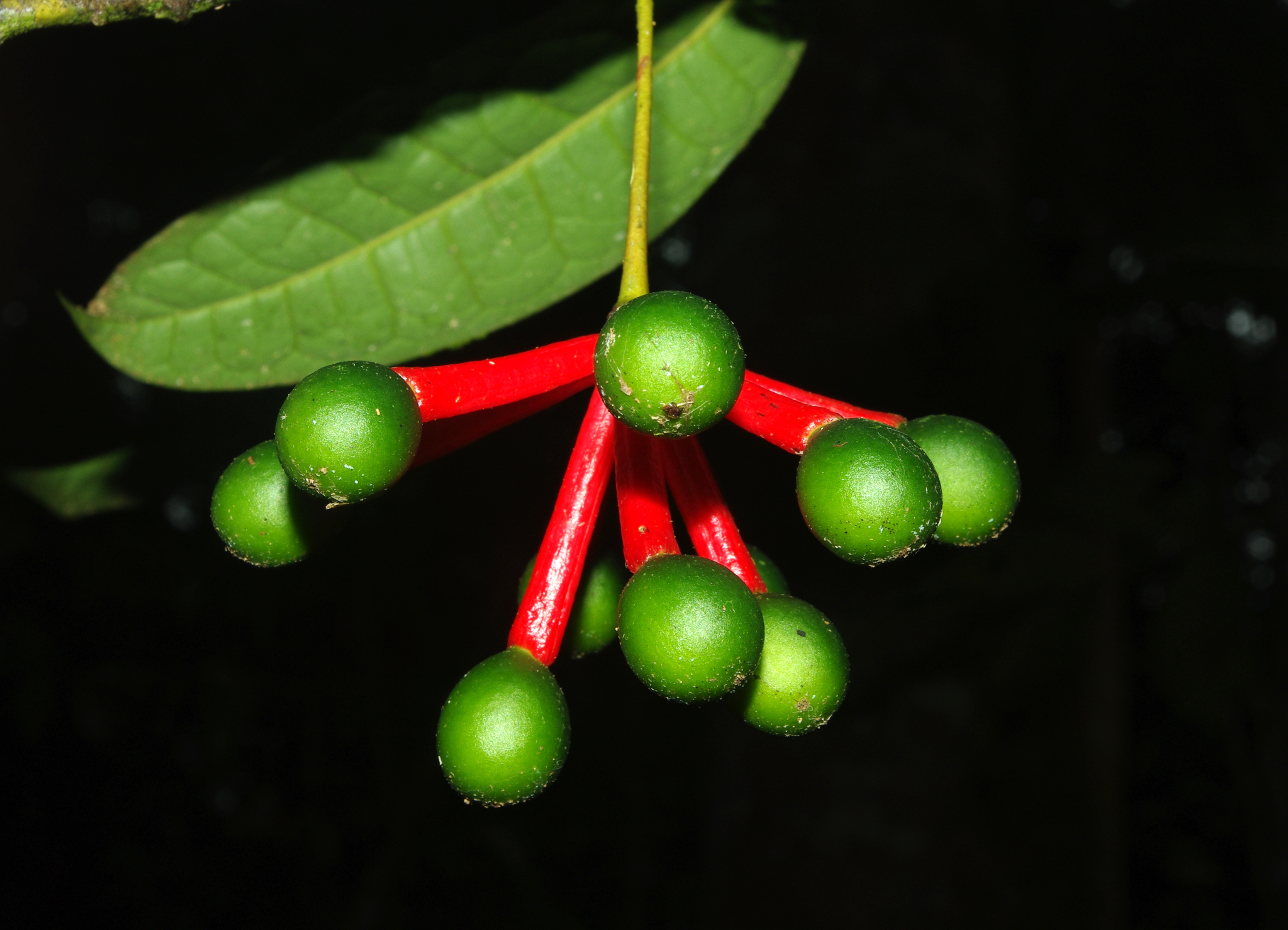 Malmea manausensis, PNAmazonas, Brazil